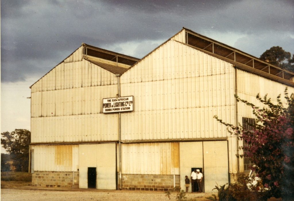 power station in Ruiri about 1960